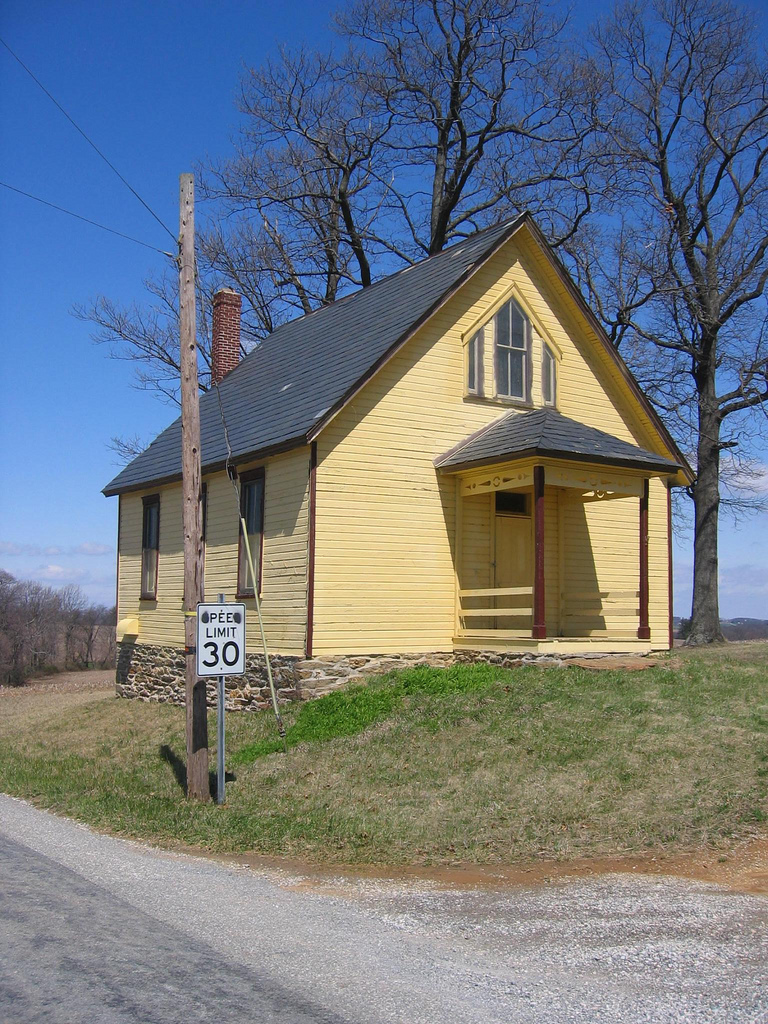 A frame school building on a stone foundation at Trout School Road and Rambo Hill Road in Felton, Pennsylvania.